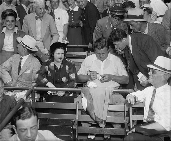 "The Bam still a favorite. Washington D.C. July 7. Although out of baseball for the last few years, "Babe" Ruth still retains his popularity with the millions of baseball fans the country over. With Mrs. Ruth the "Babe" is shown autographing a ball for an admirer at the All-Star game today at Griffith Stadium. 7/7/37." This file has an extracted image: File:Babe Ruth 1937 CROPPED.jpg.